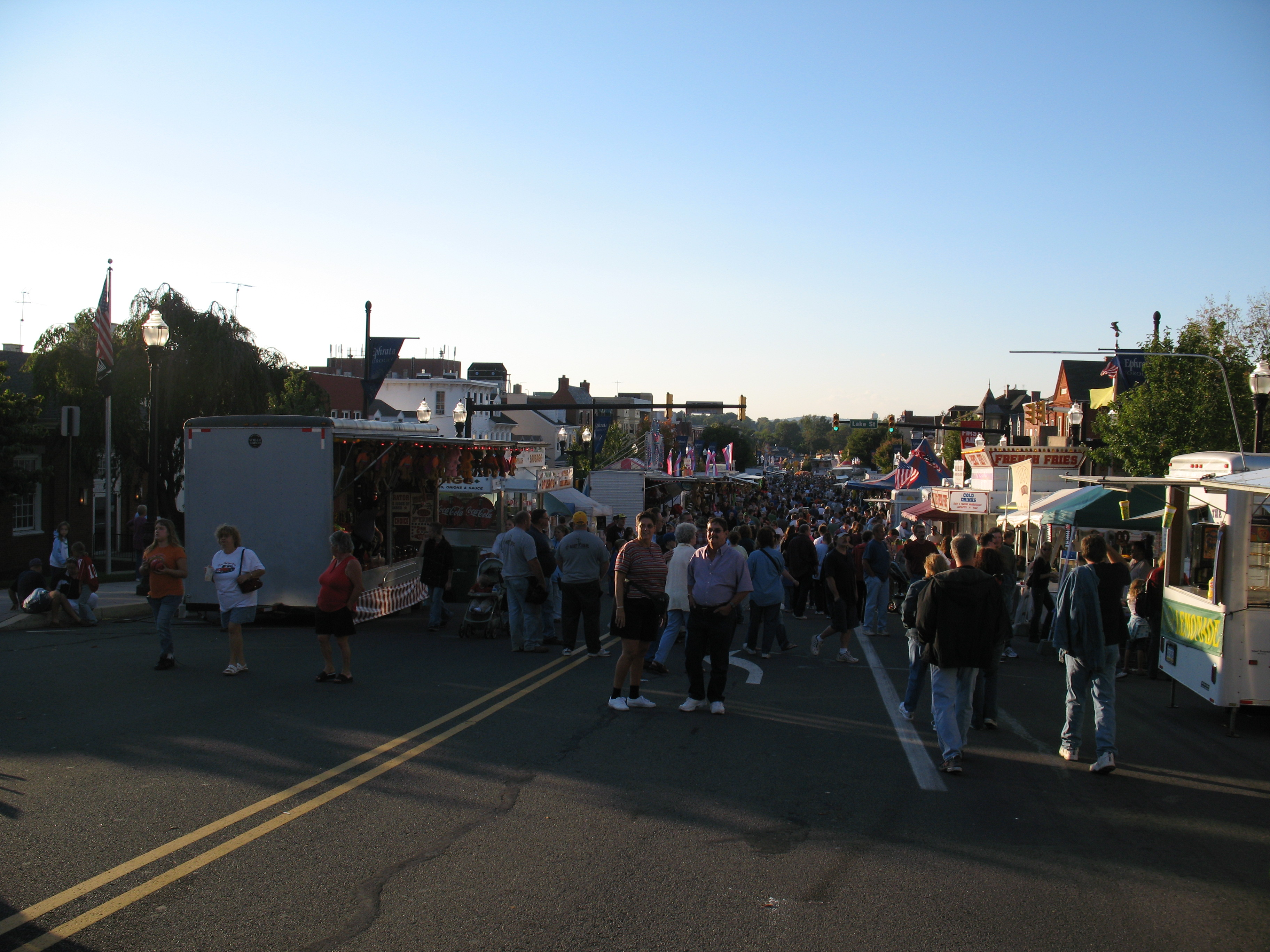 The Ephrata Fair, looking down Main Street from the intersection with Lake Street, Ephrata, Pennsylvania